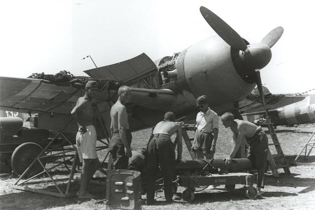 IAR-80 being prepared for action